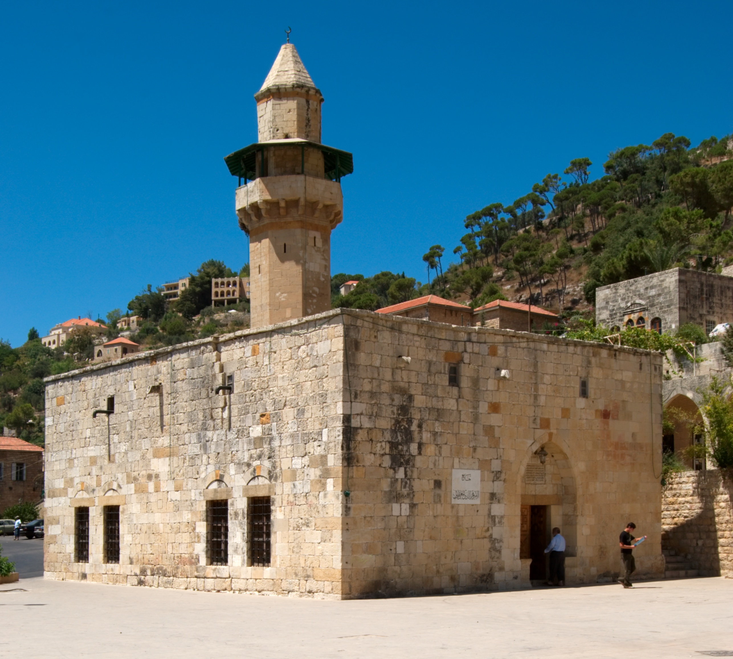 Fakhredine mosque in Deir al-Qamar, Lebanon